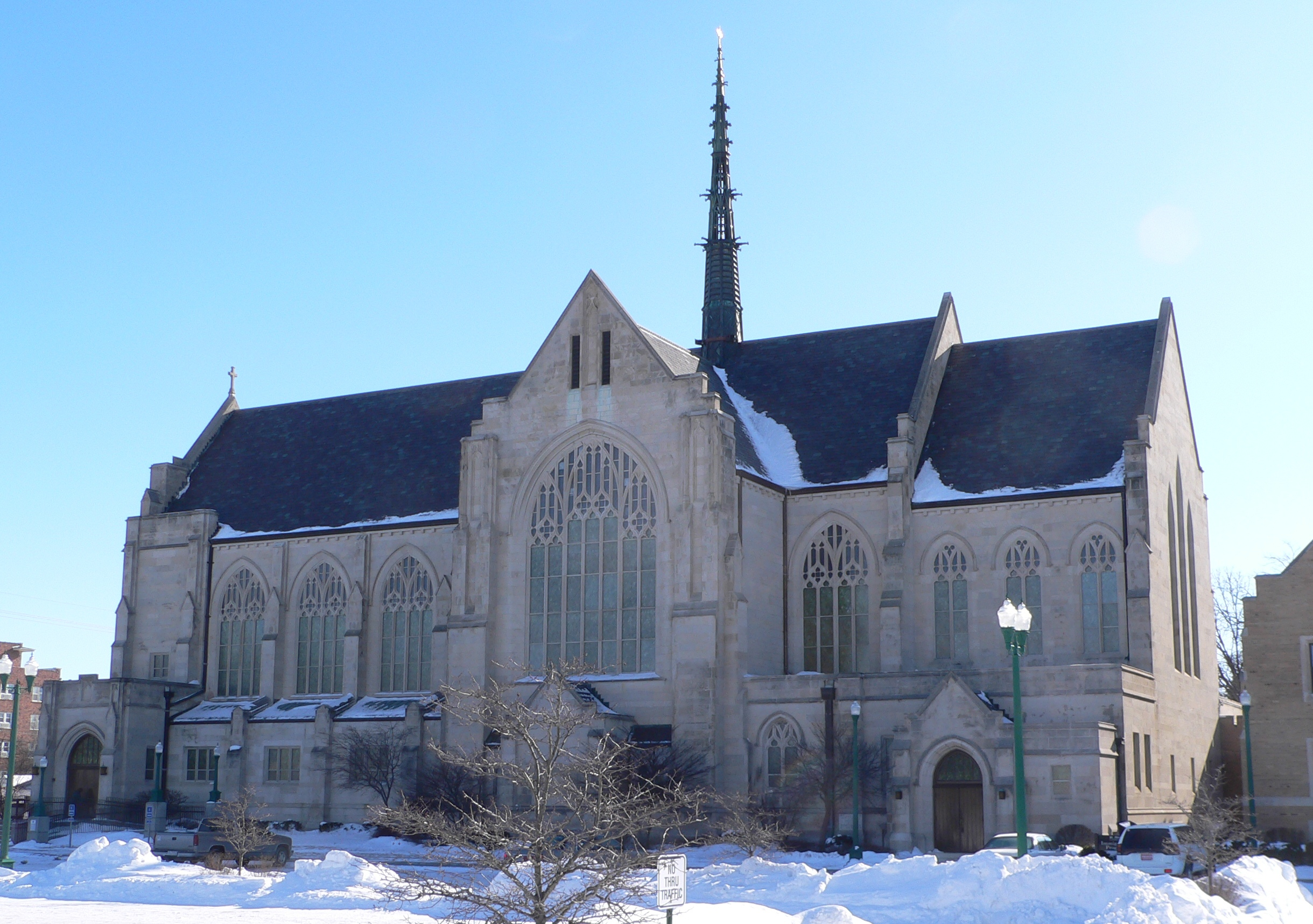 Cathedral of the Nativity of the Blessed Virgin Mary in Grand Island, Nebraska; seen from the north. The cathedral was designed in Late Gothic Revival style by architects Brinkman & Hagan; the cornerstone was laid in 1926. The building is listed in the National Register of Historic Places.